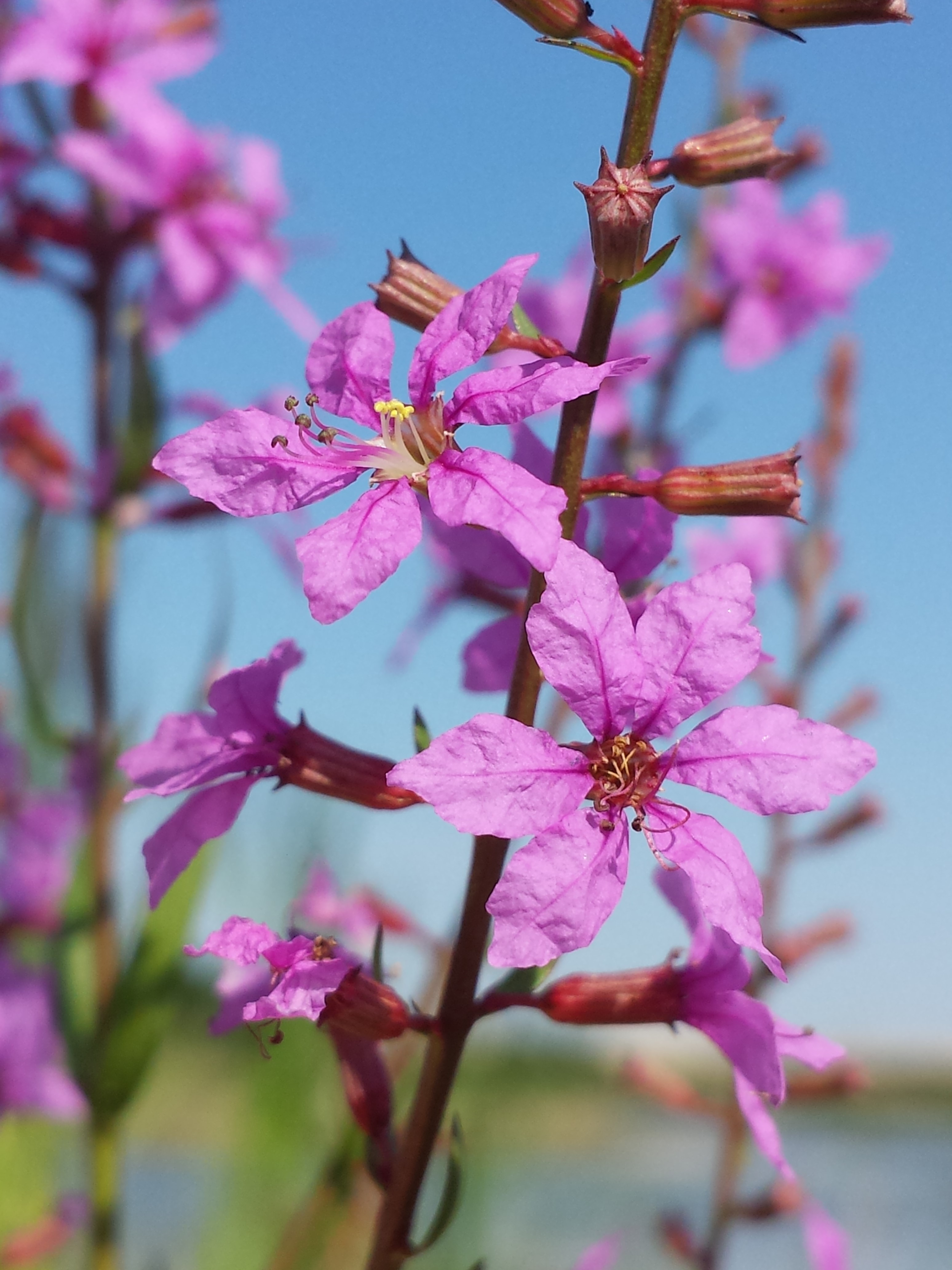 Inflorescence Taxonym: Lythrum virgatum ss Fischer et al. EfÖLS 2008 ISBN 978-3-85474-187-9 Location: pond near Michelstetten, district Mistelbach, Lower Austria - ca. 250 m a.s.l. Habitat: shore of a pond